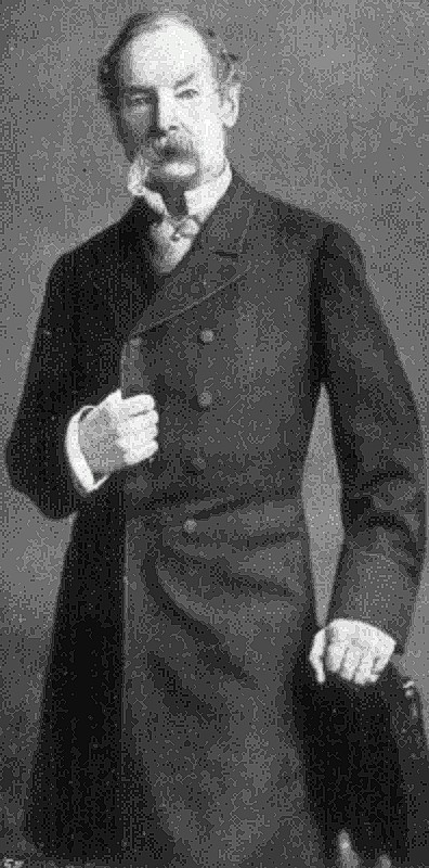 Portrait of John Tenniel (1820-1914)